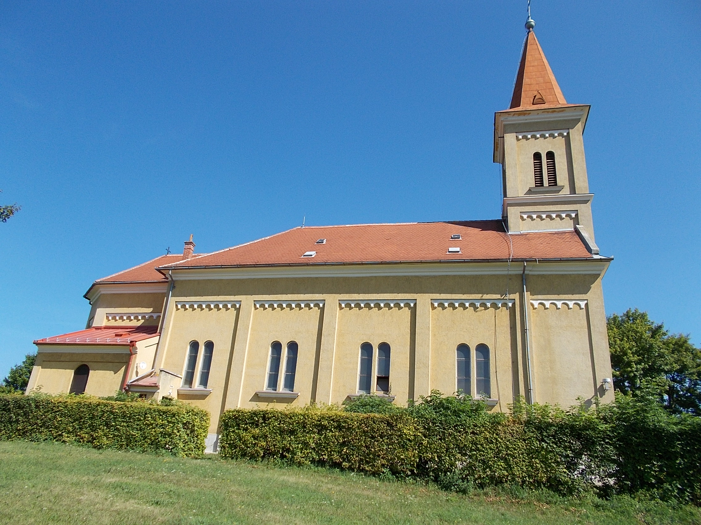 Saint Ladislaus church. The parish of Saint Ladislaus (in Veszprém) was founded by Bishop Czapik in 1941. In the Middle Ages here was placed the St. Margaret Martyr Basilica. In its place a small chapel built sacred to Saint Ladislas in 1740. In 1799 left the cemetery around it. Today's neo-Romanesque church built in 1902. (The parish building (close to it) was built in 1941) in Dózsaváros Veszprém, Veszprém County, Hungary.